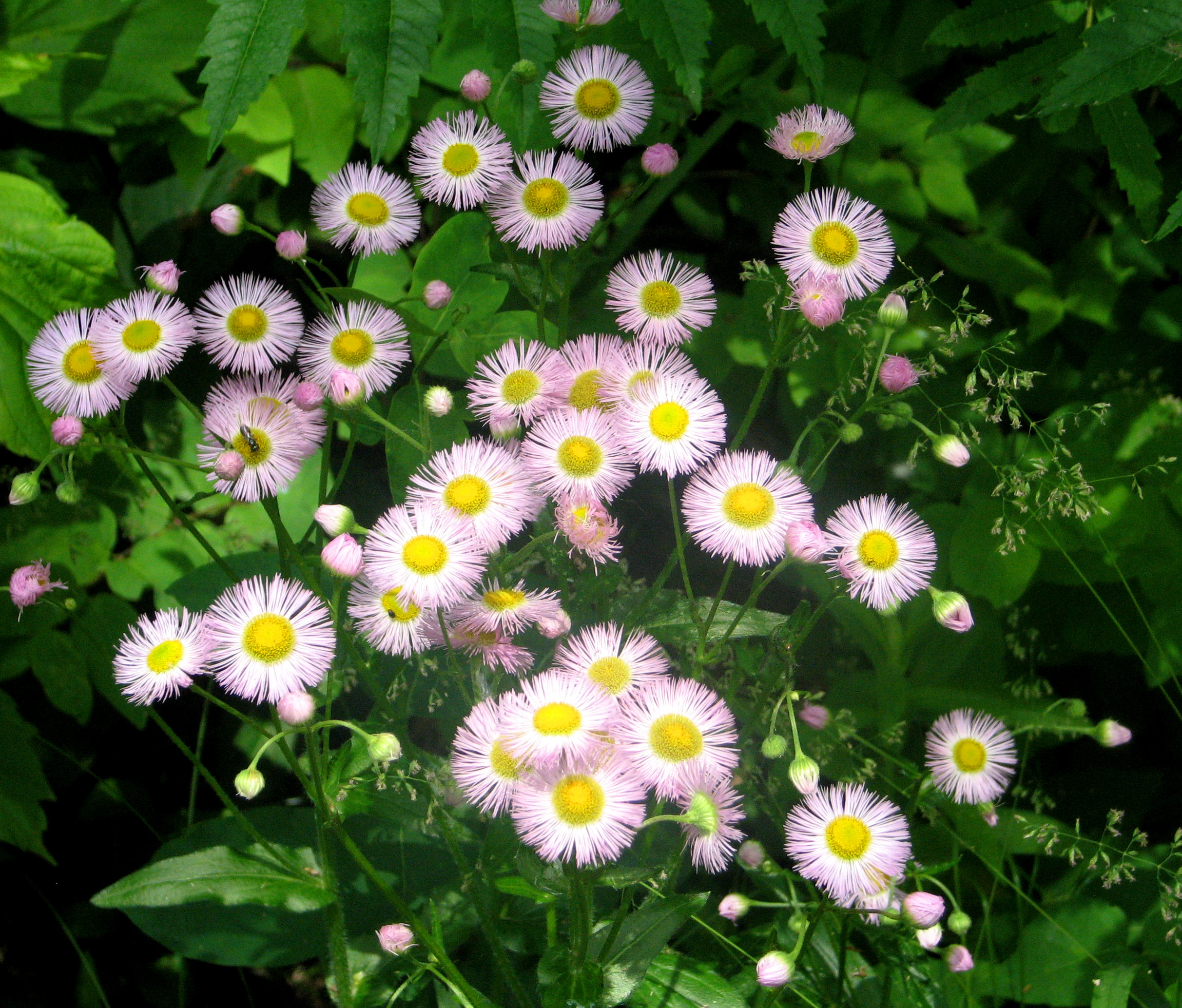 Philadelphia Fleabane (Erigeron philadelphicus), Ottawa, Ontario, Canada